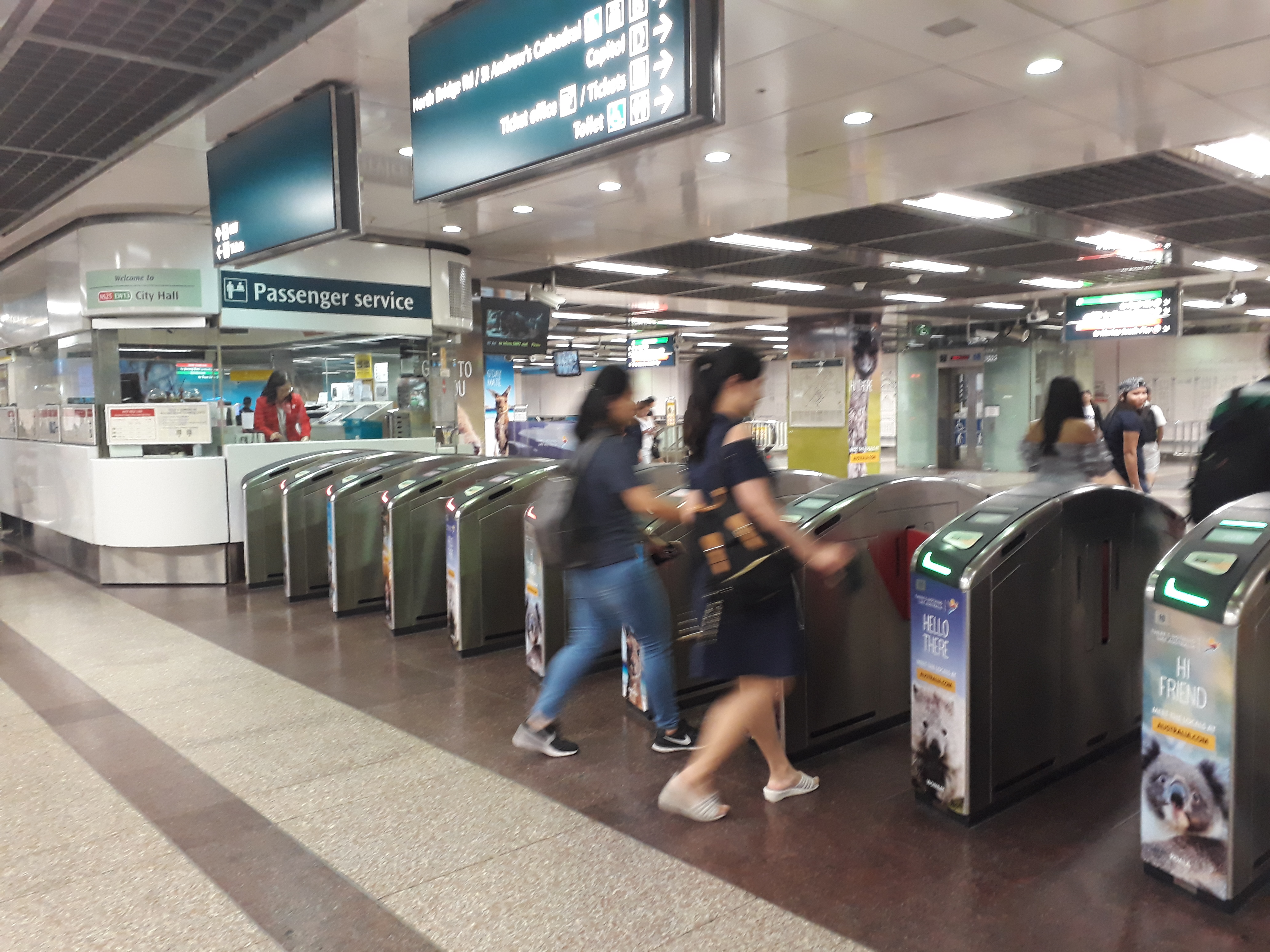 Faregates at City Hall